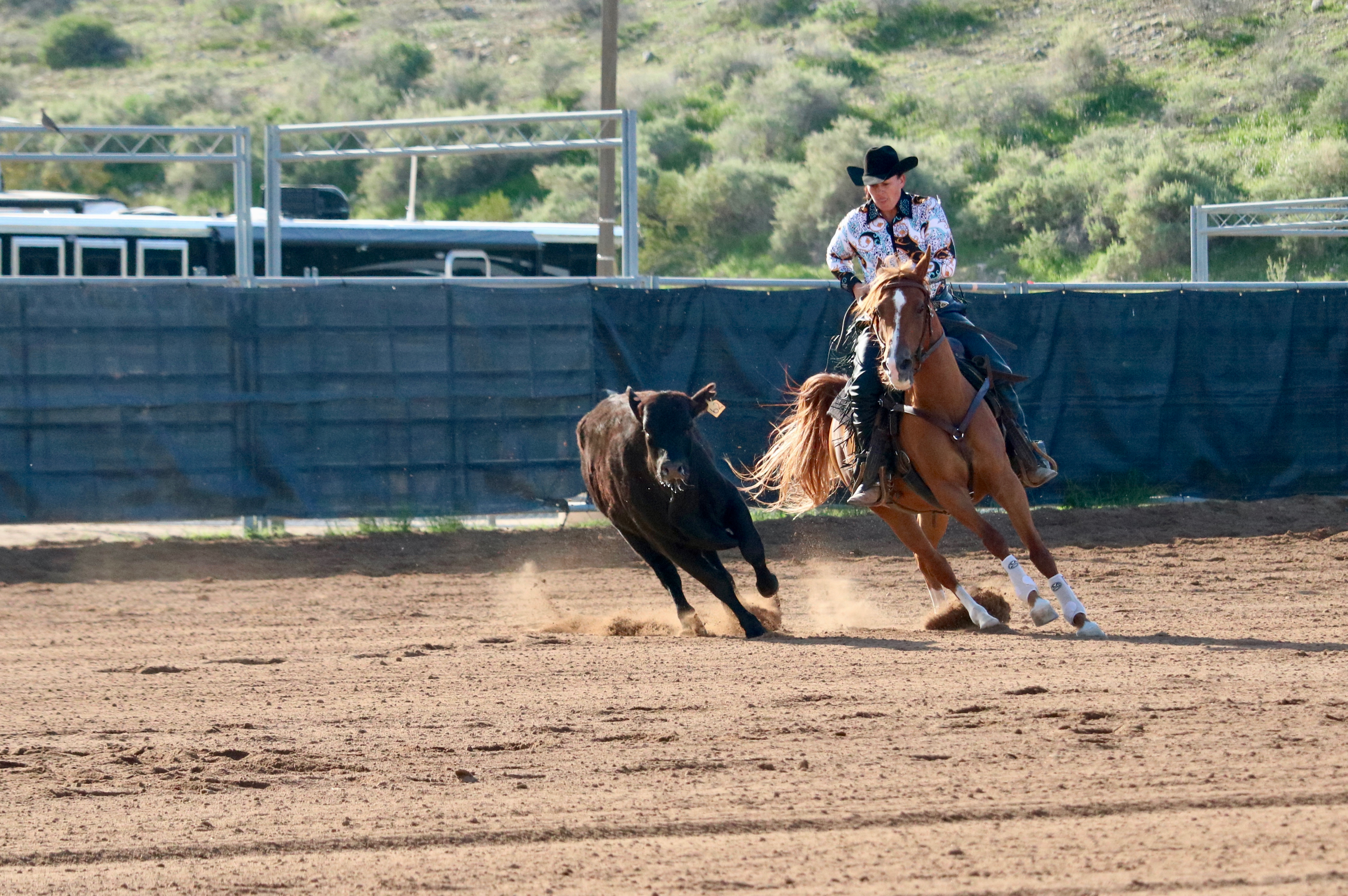 Working cow horse, junior horse division, 2017 Scottsdale Arabian Horse Show, Scottsdale, Arizona